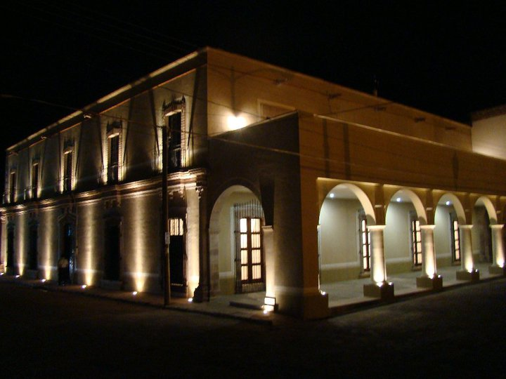 Instituto municipal de cultura, ubicado en donde permanecía la antigua secundaria del Colegio